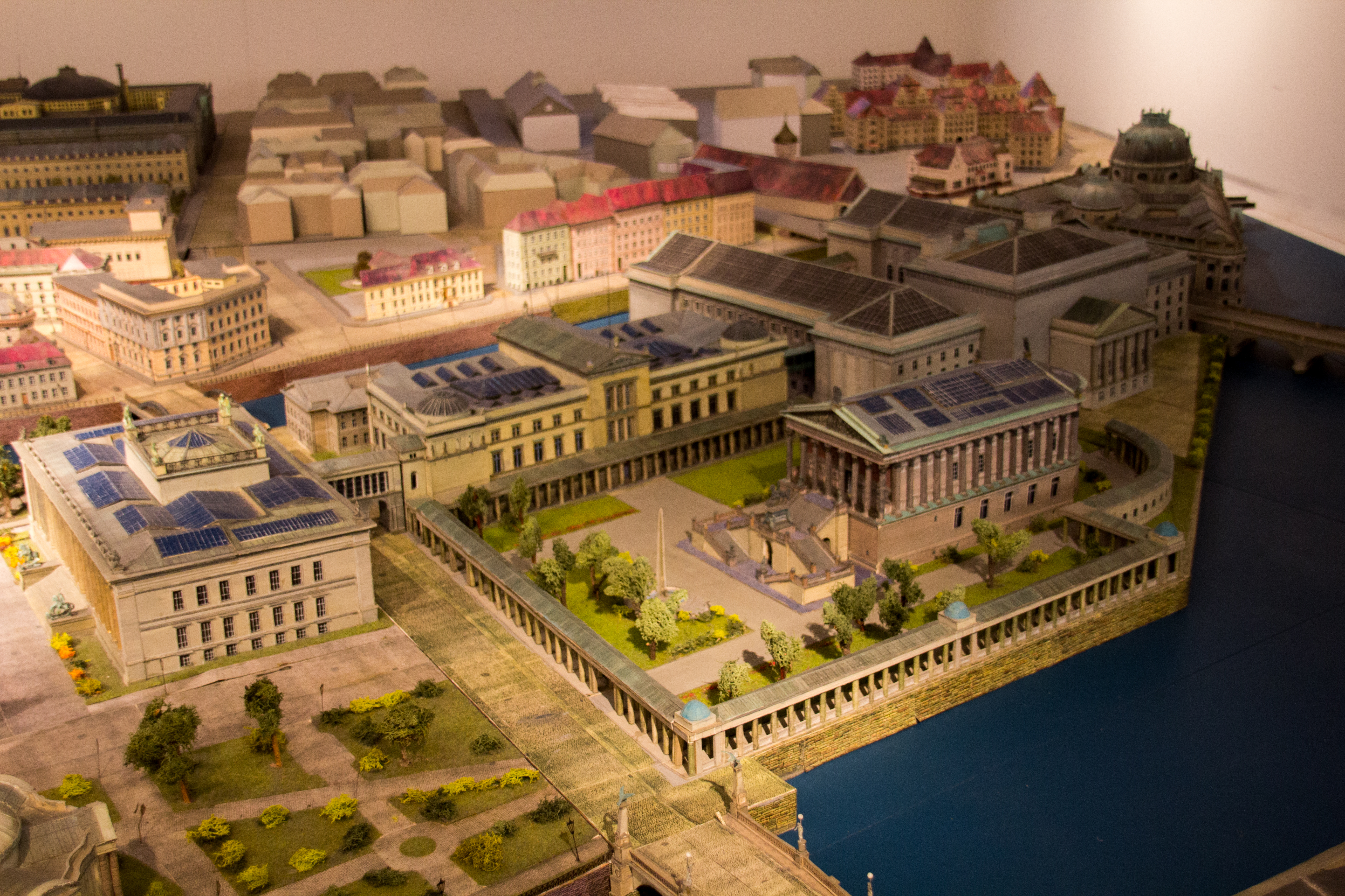 Humboldt-Box, Berlin, Germany. Model of Berlin in 1900, by Horst Dühring